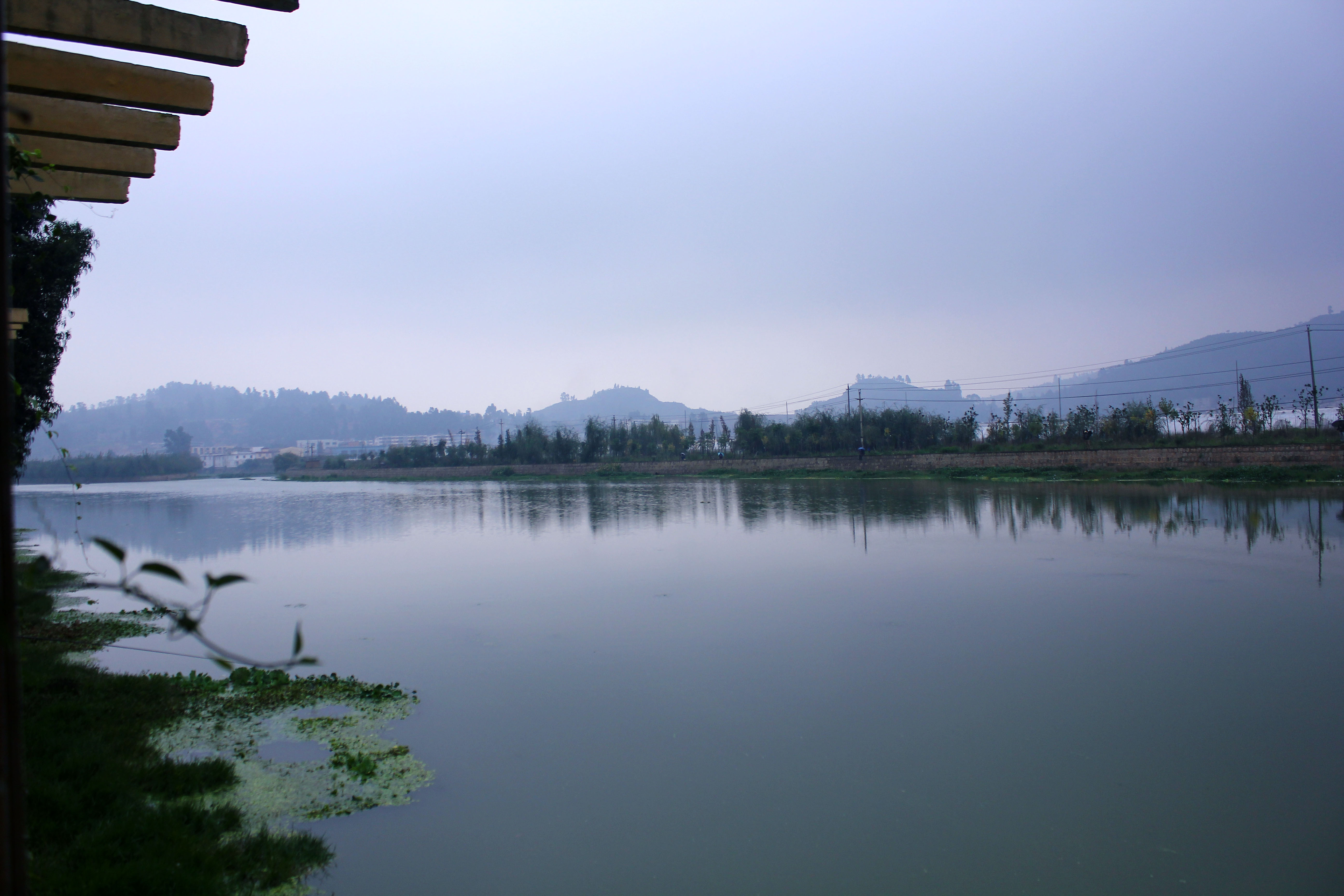 Tanglang River near Haikou Subdistrict（former Haikou Town）in Kunming City of Yunnan Province in China。